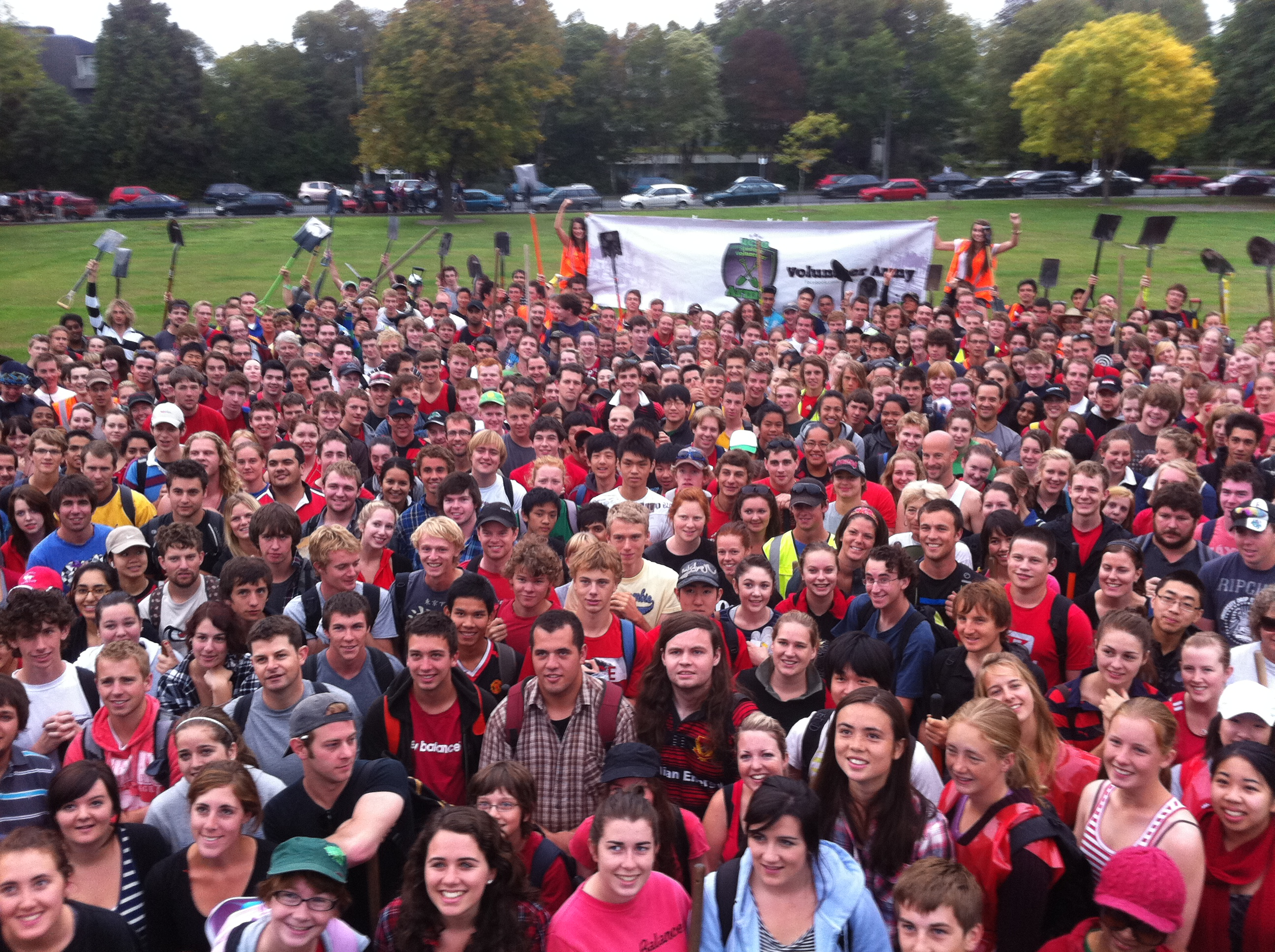 Student Volunteer Army before deployment